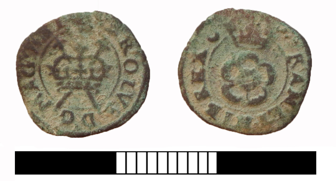 A copper alloy Rose farthing of Charles I, 1625-1649.